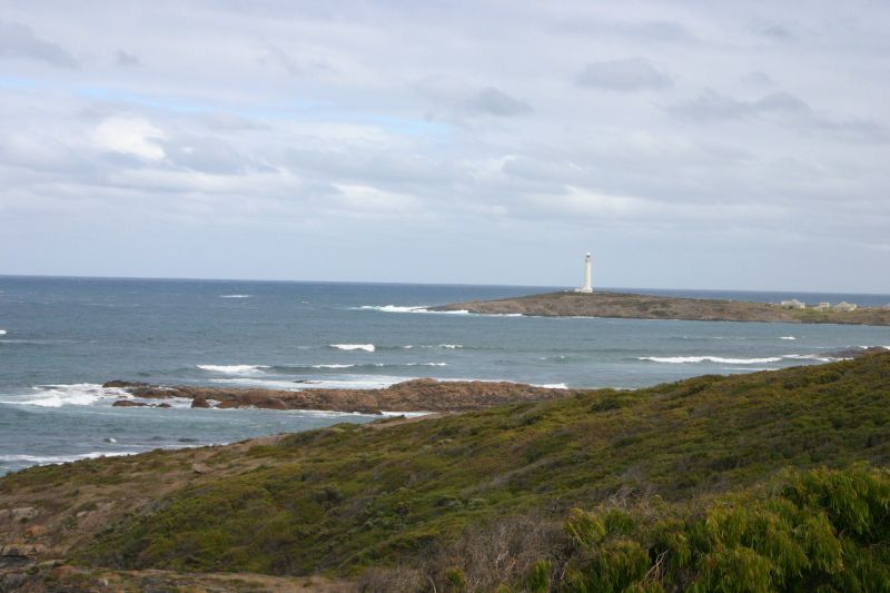 Lighthouse at Cape Leeuwin, Western Australia